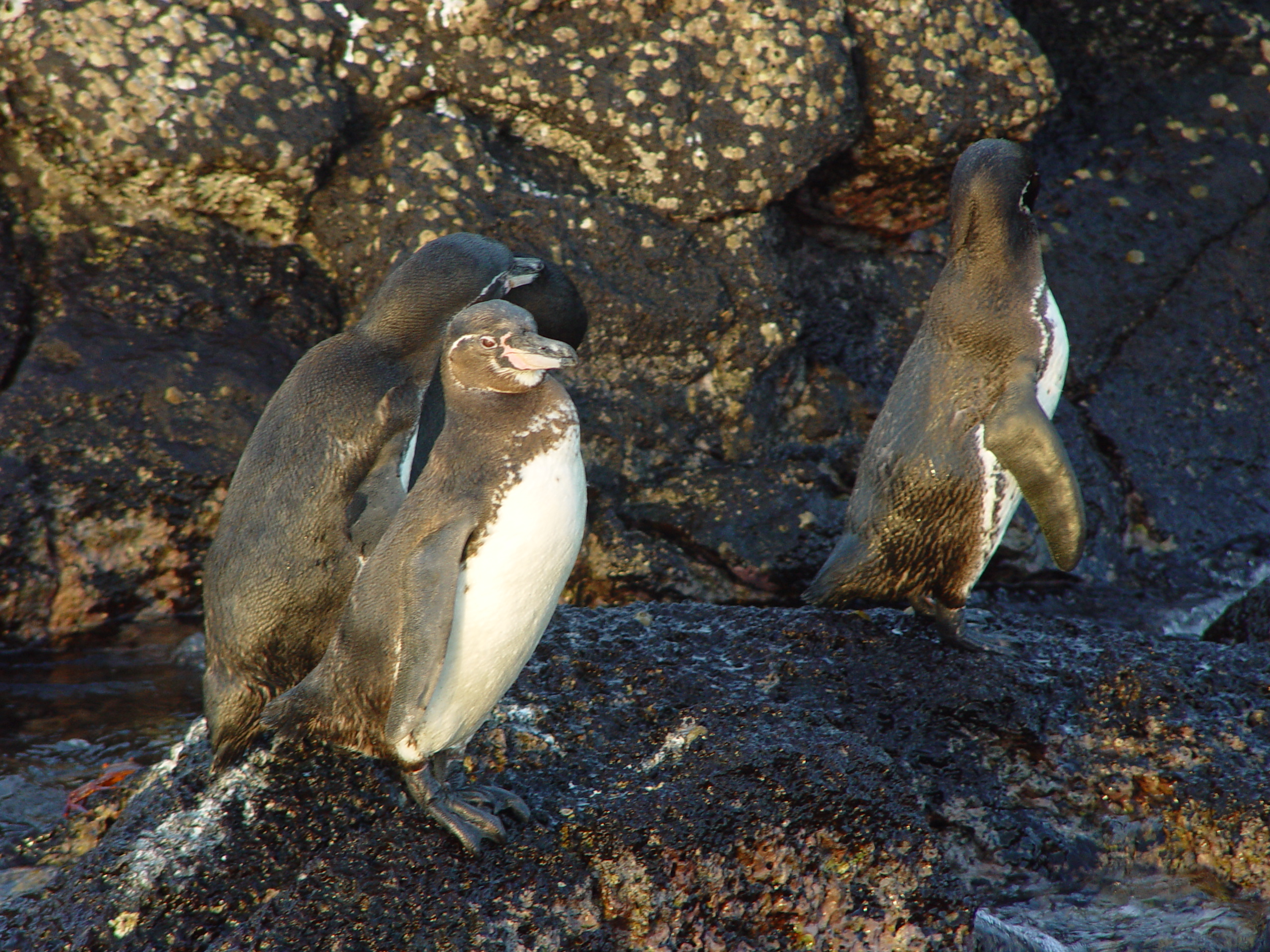 Galápagos Penguin (Spheniscus mendiculus). Three on dark rock by the sea on Galapagos.